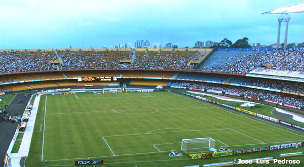 match of Brazilian Championship of 2006 between São Paulo and Juventude in Cícero Pompeu de Toledo stadium, known as Morumbi. The game ended with São Paulo victory by 5 to 0. View of the São Paulo supporters.